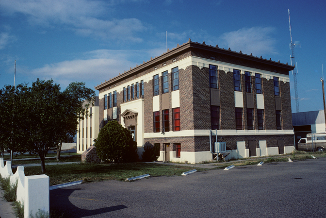 Hidalgo County courthouse in Lordsburg, New Mexico Object location32° 20′ 52″ N, 108° 42′ 26″ W